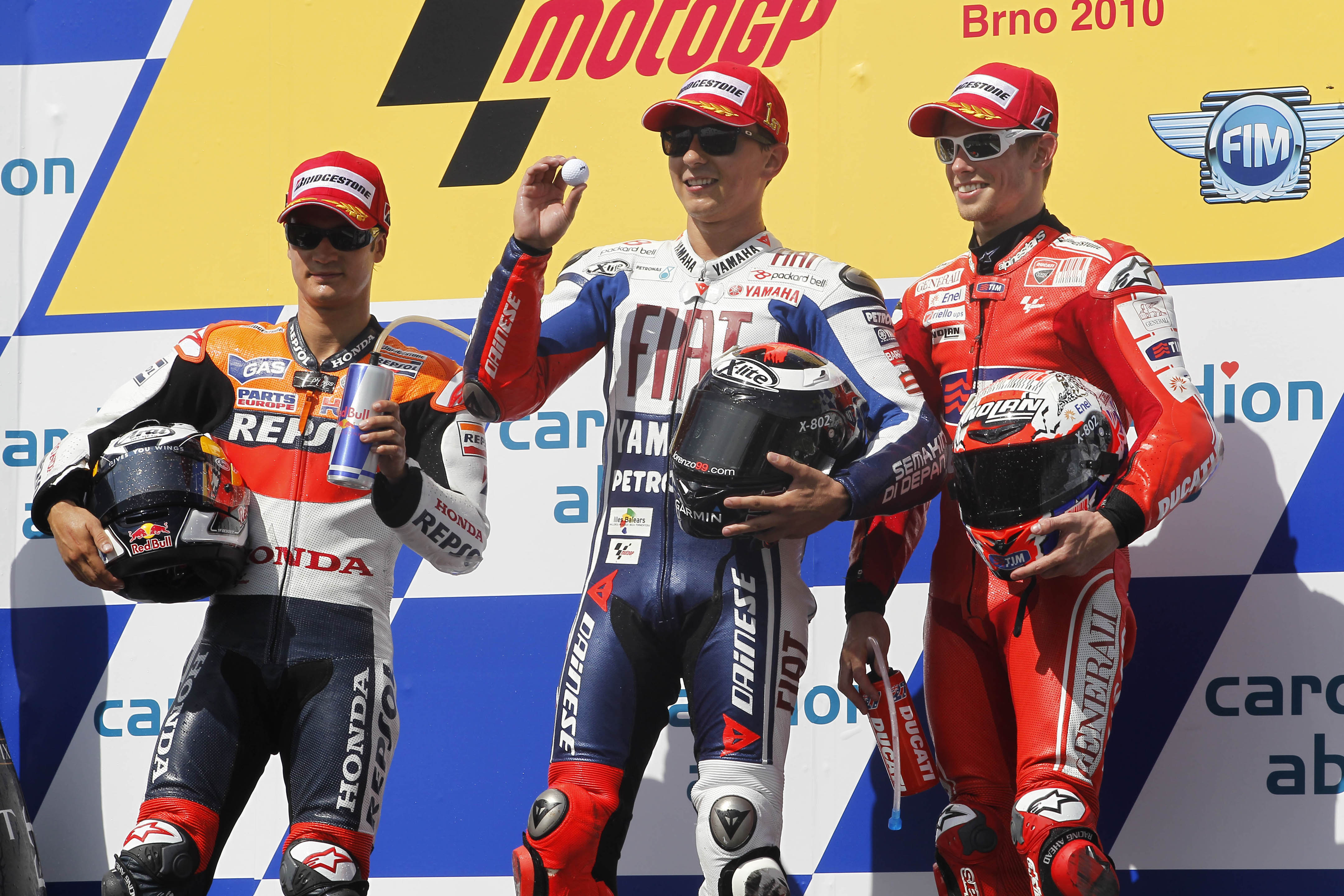 Dani Pedrosa, Jorge Lorenzo and Casey Stoner, posing for a photo on the podium after finishing second, first and third at the 2010 Czech Republic Grand Prix.